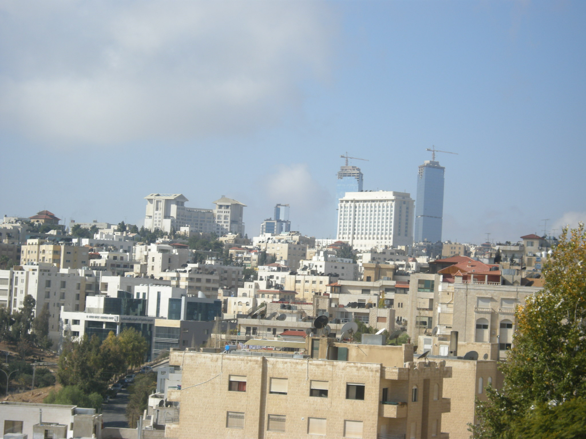 View of the city of Amman